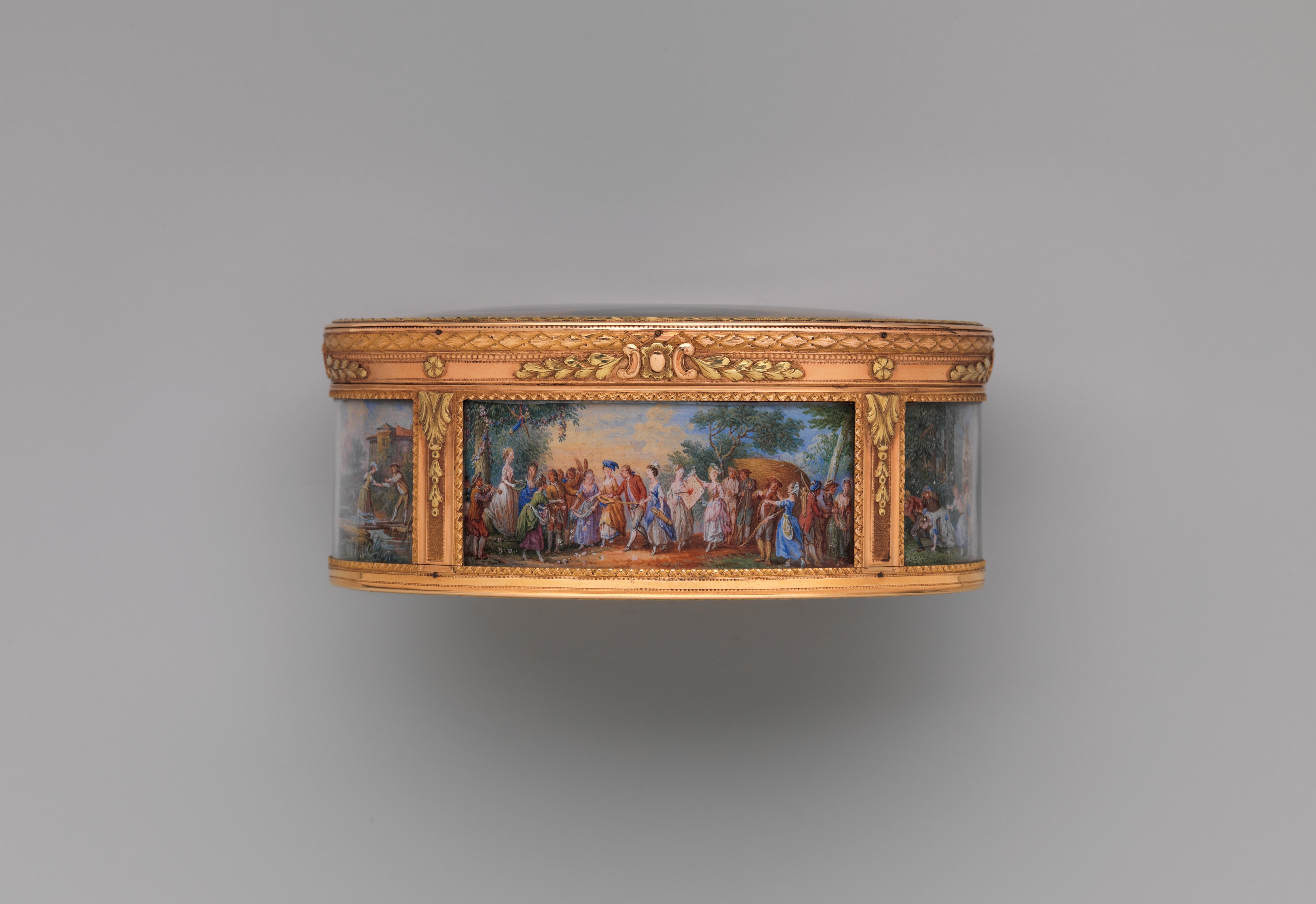 French, Paris; Snuffbox, painting; Metalwork-Gold and Platinum